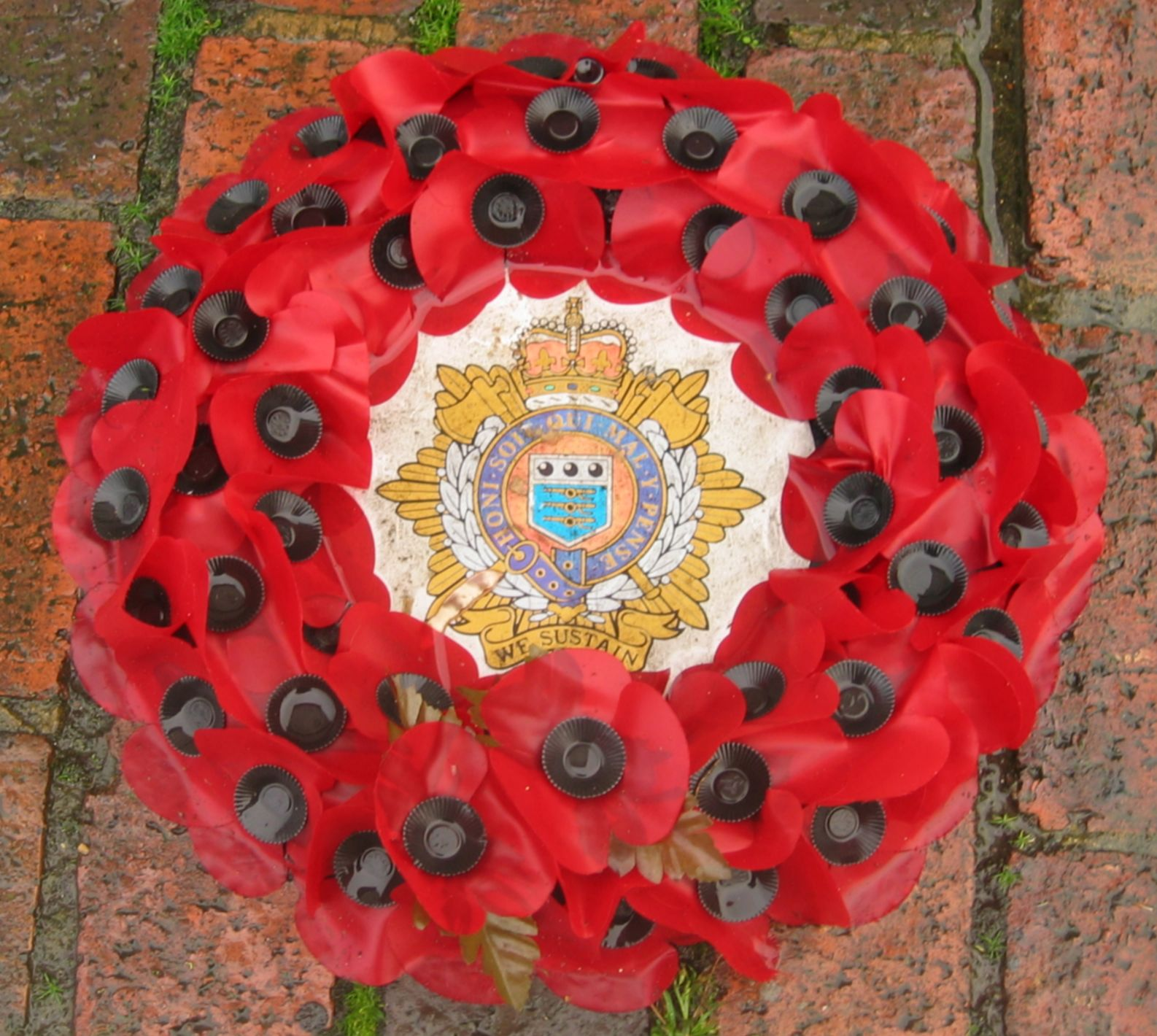 Poppy wreath at war memorial in London (Stockwell)